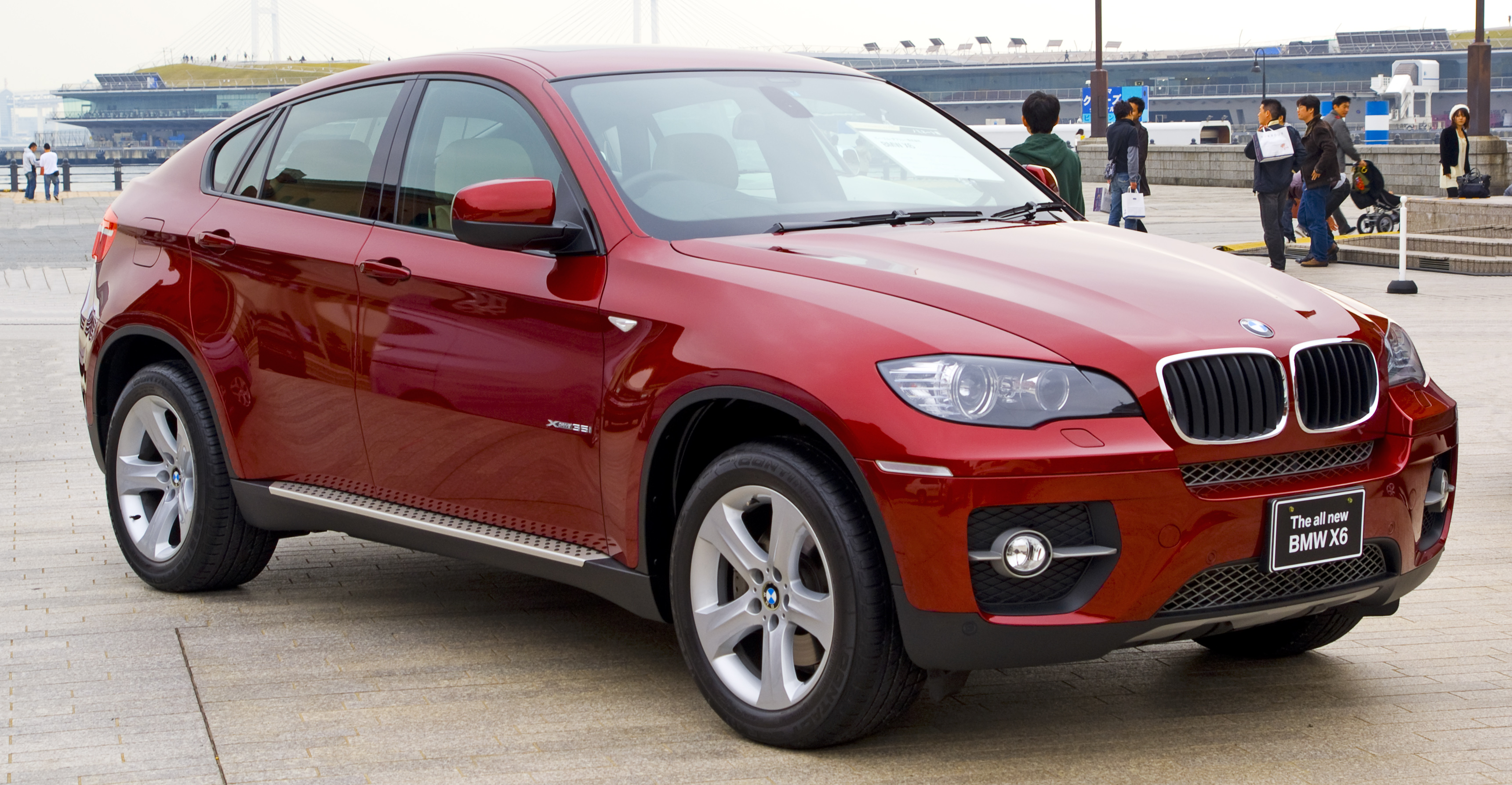 BMW E71 X6 xDrive35i photographed in Yokohama Red Brick Warehouse